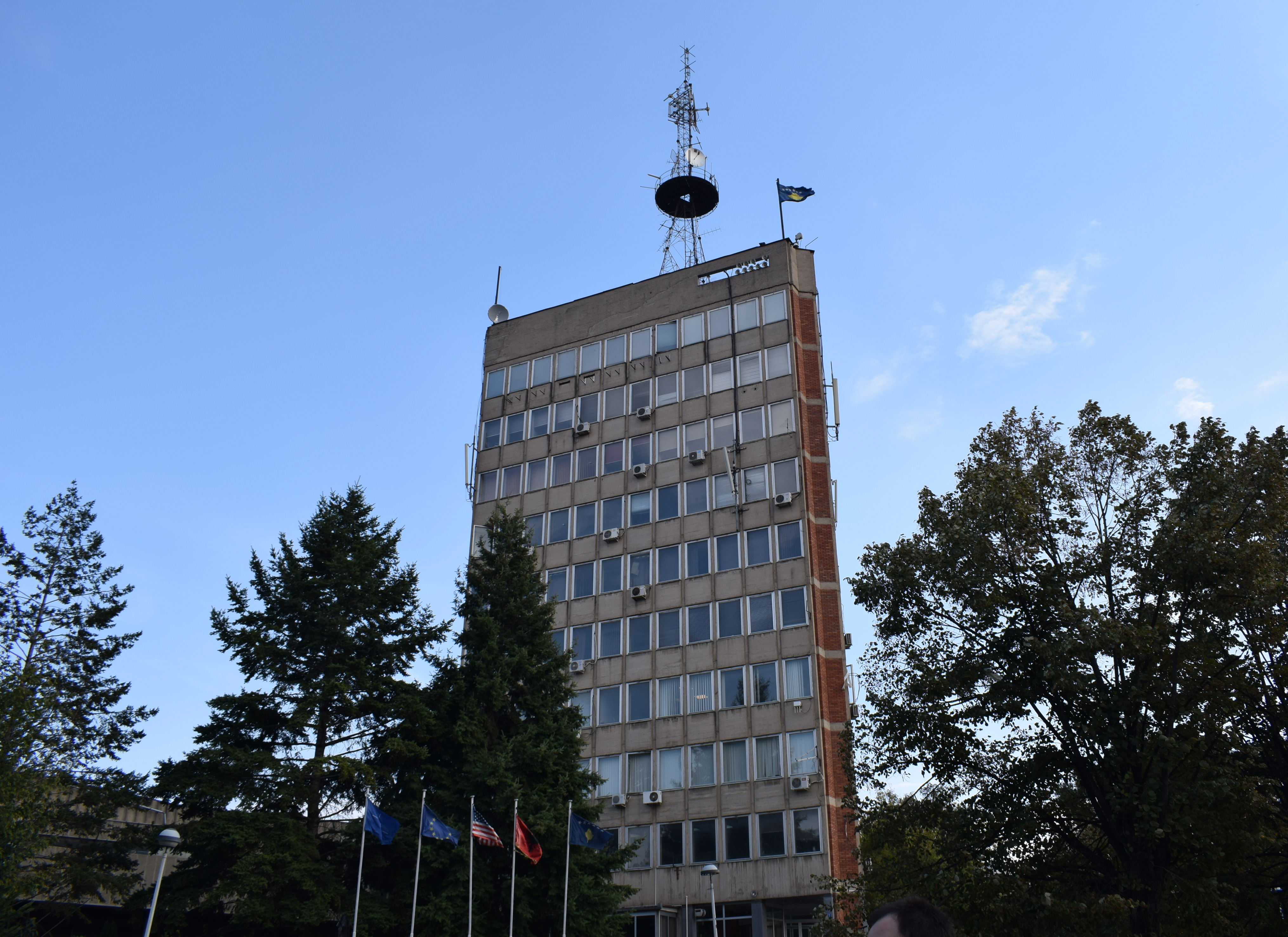 Radio Kosova Building